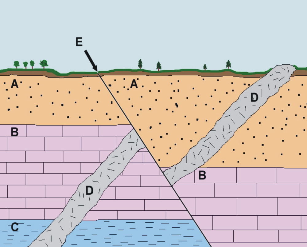 Cross-section of sedimentary layers: (A-C) igneous intrusion, (D) cross-section, (E) fault.